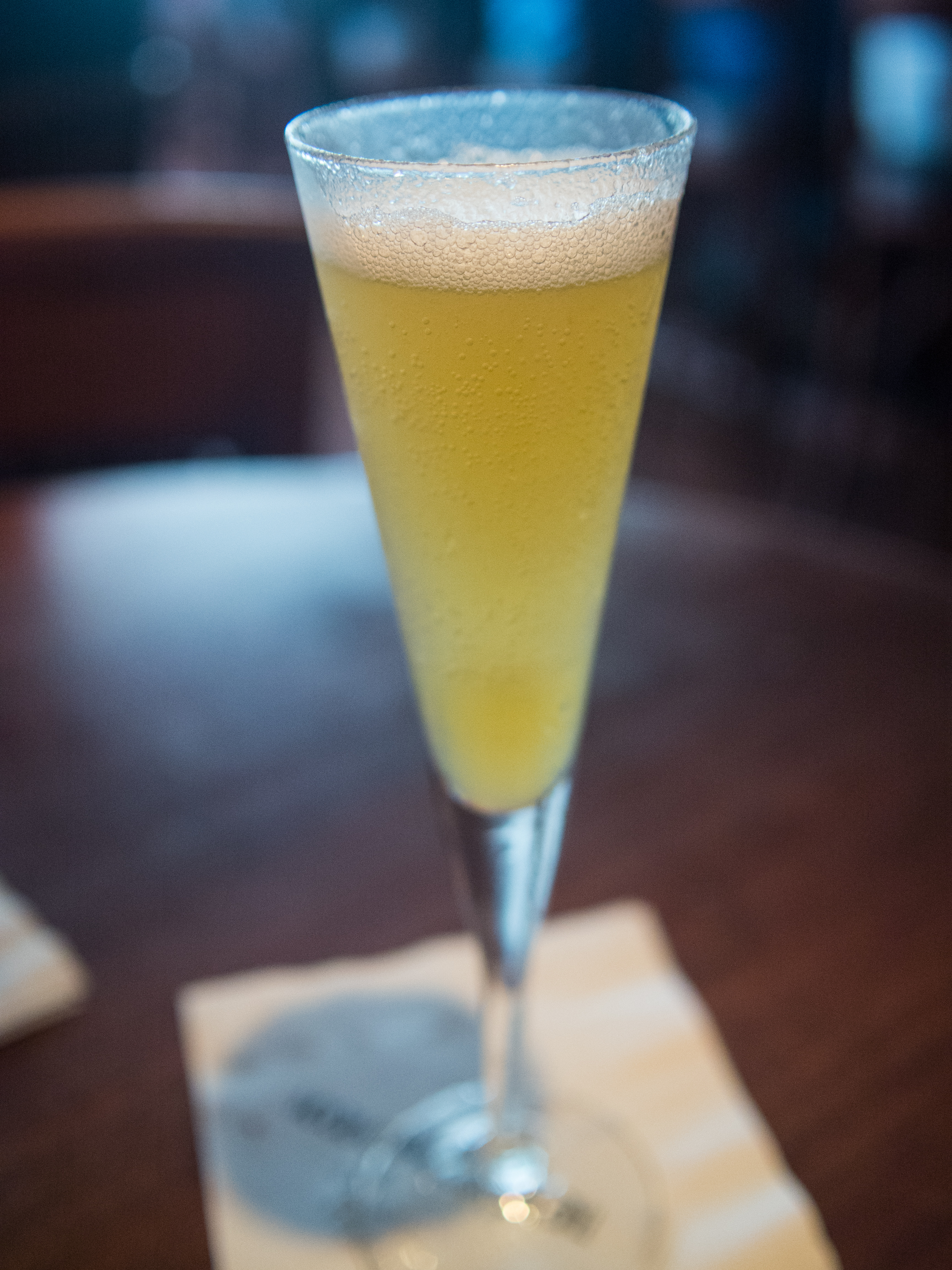 Made with Tavern Co. Double-Oaked Chardonnay Vinegar